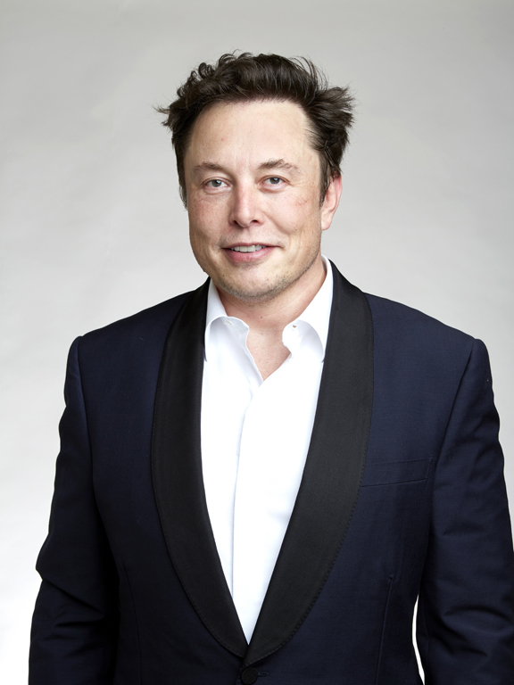 Elon Musk is a technology entrepreneur, investor, and engineer.